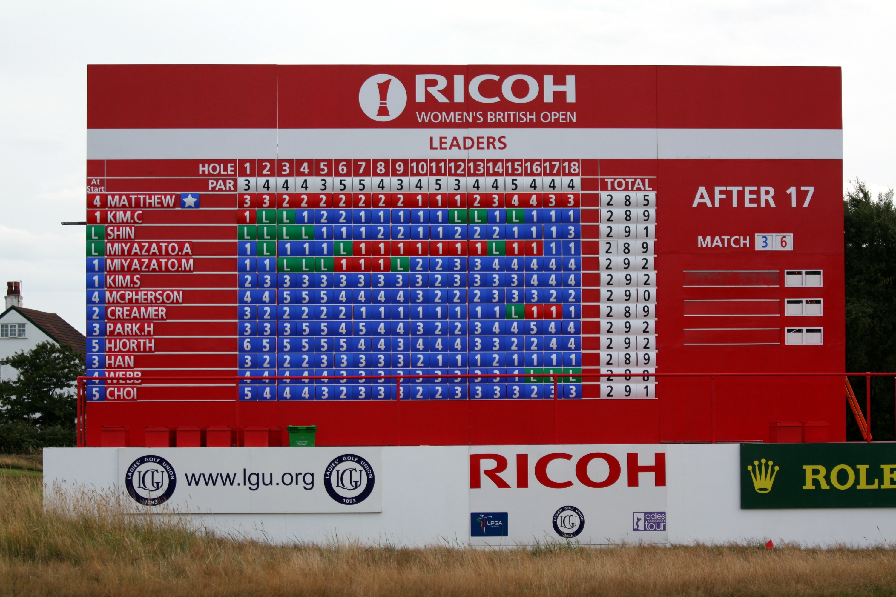 LYTHAM ST ANNES, UNITED KINGDOM - AUGUST 02: A view of the leaderboard next to the 18th green after completion of 2009 Ricoh Women's British Open held at Royal Lytham & St Annes on August 2, 2009 in Lytham St Annes, England. (Photo by Wojciech Migda)